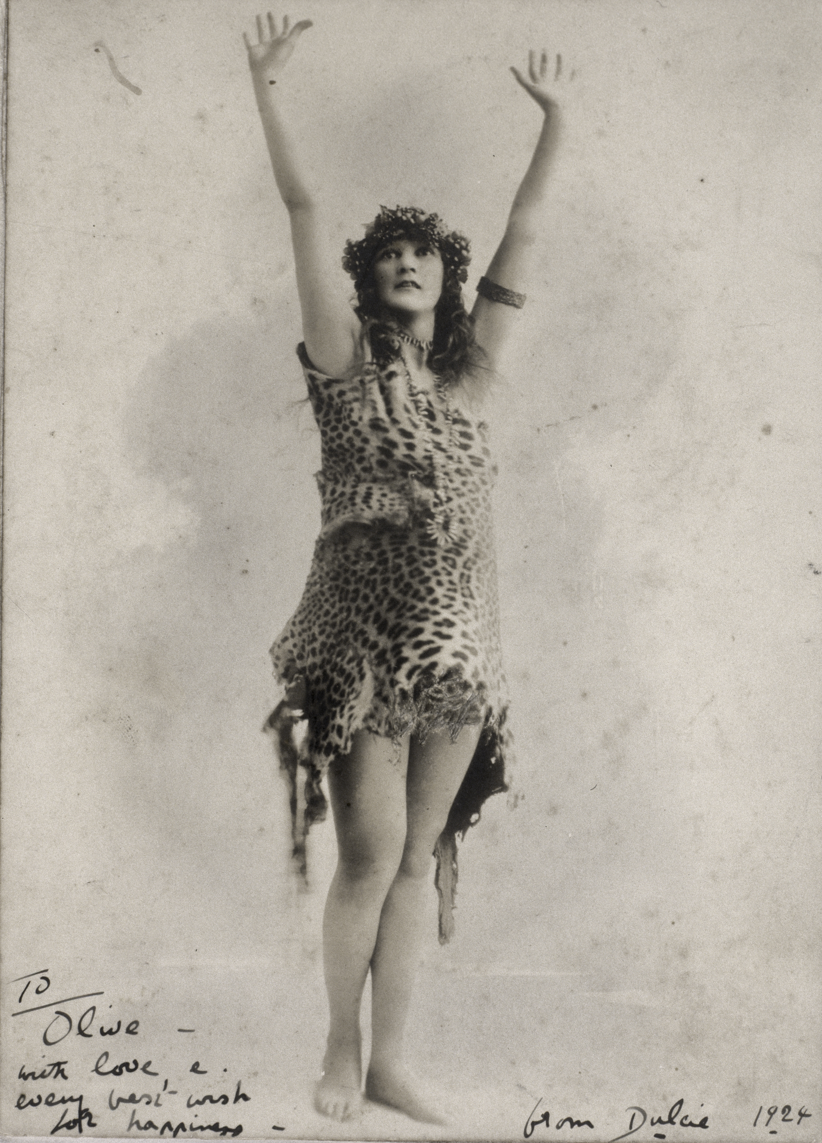 Dulcie Deamer in leopard-skin costume, 1923, vintage silver gelatin print, Swiss Studios, State Library of New South Wales P1/Goldie, Dulcie